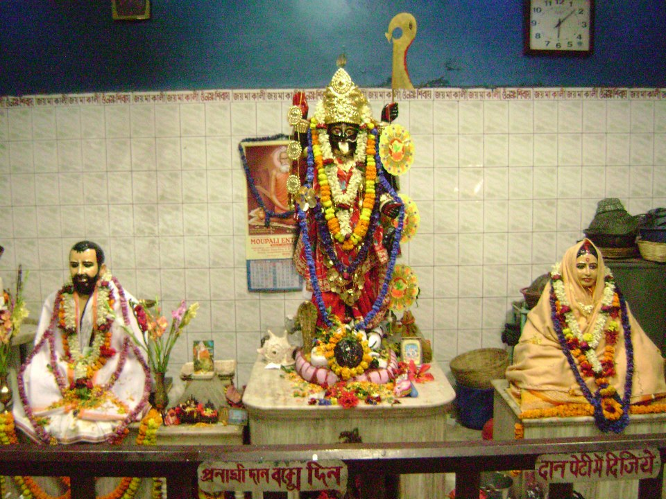 Kali Temple, Railpar, Asansol, West Bengal State, India